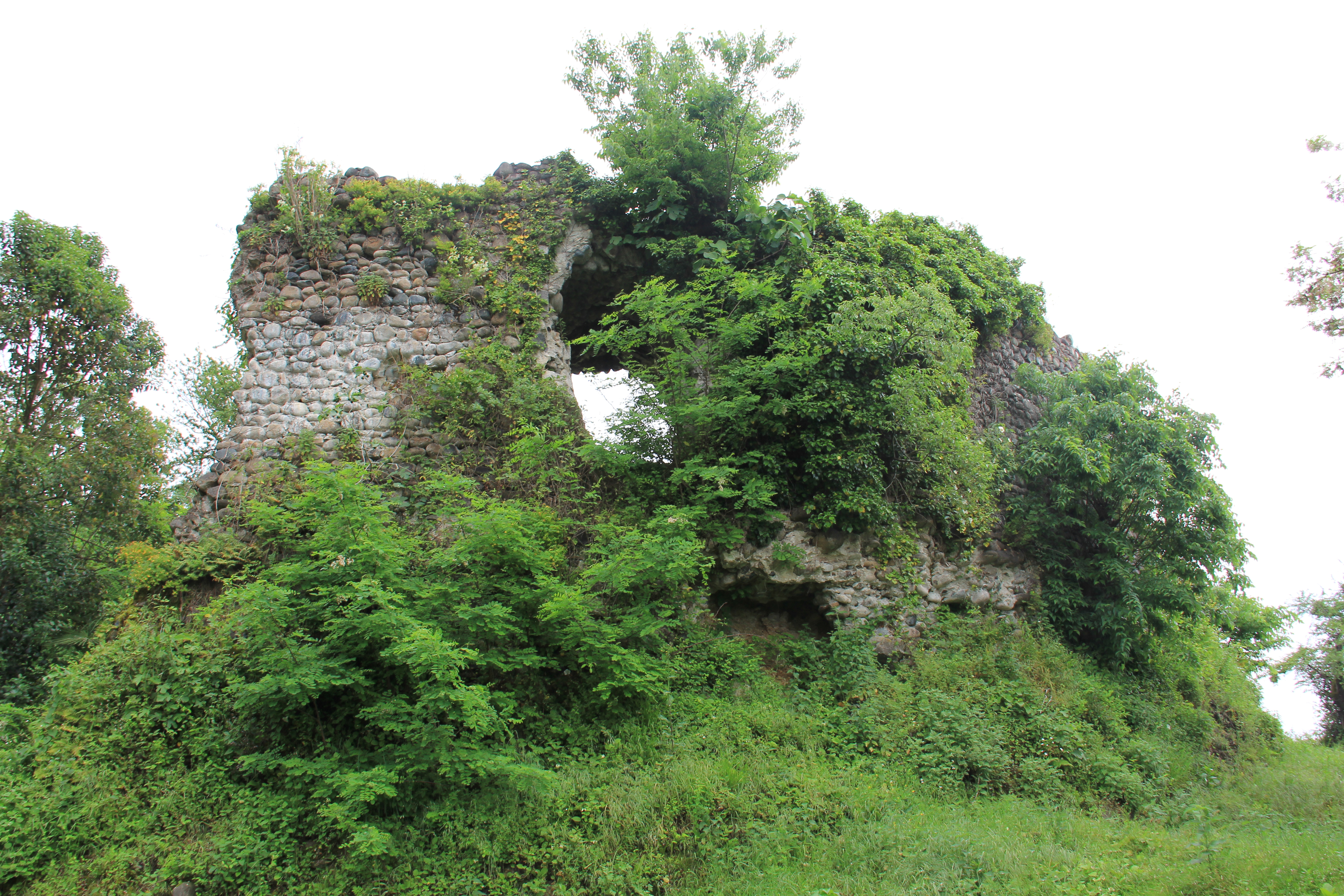 Castle by Bagrat III, Sukhum, Abkhazia